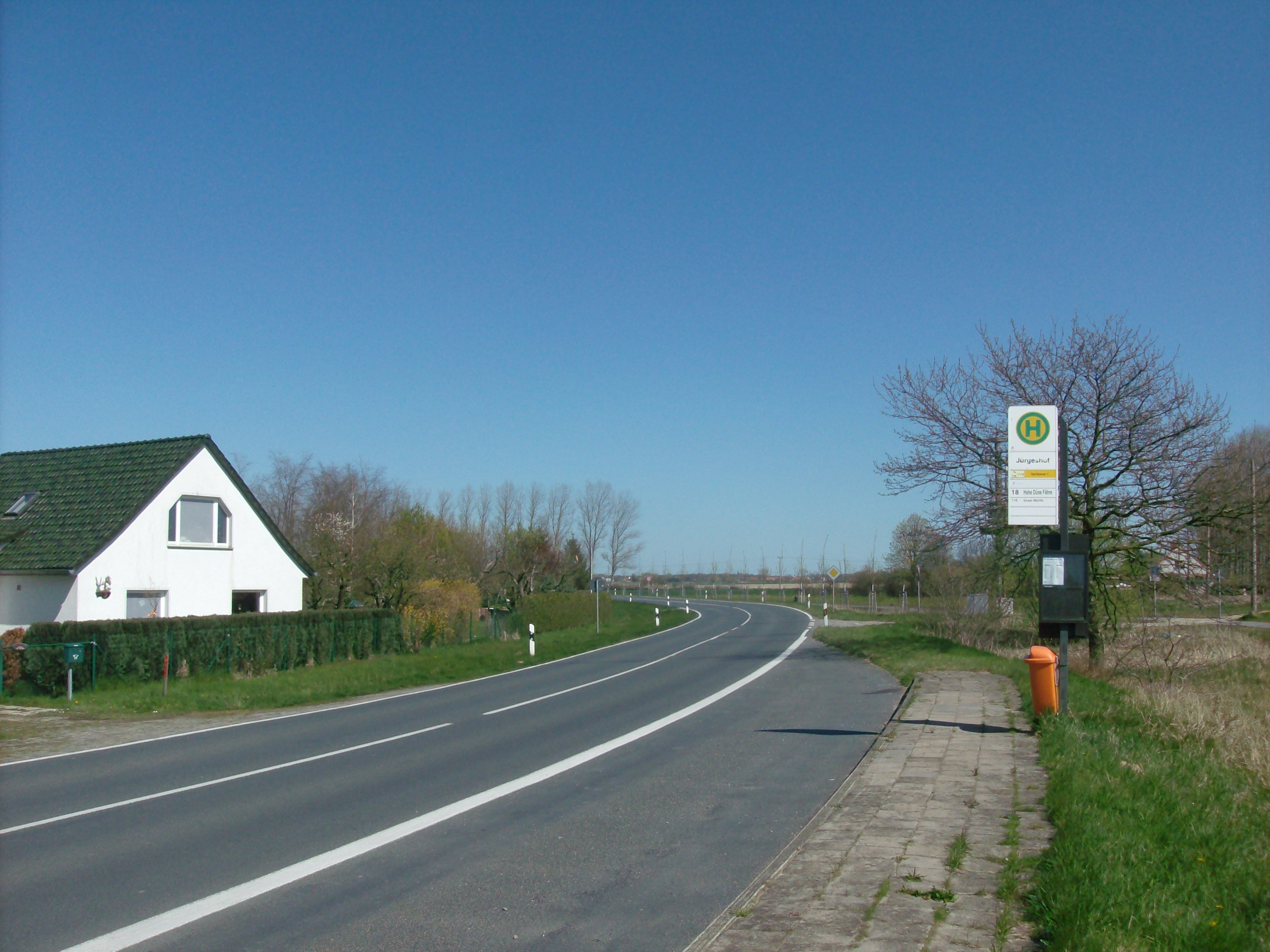 Jürgeshof, a rural part of the city of Rostock